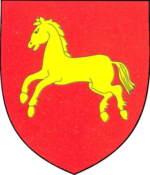 Municipal coat of arms of Březsko village, Prostějov District, Czech Republic.